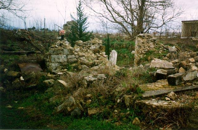 Crkva Sv. Đurđa, srušena 1993 god.